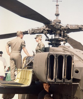 Engine section of AH-64A